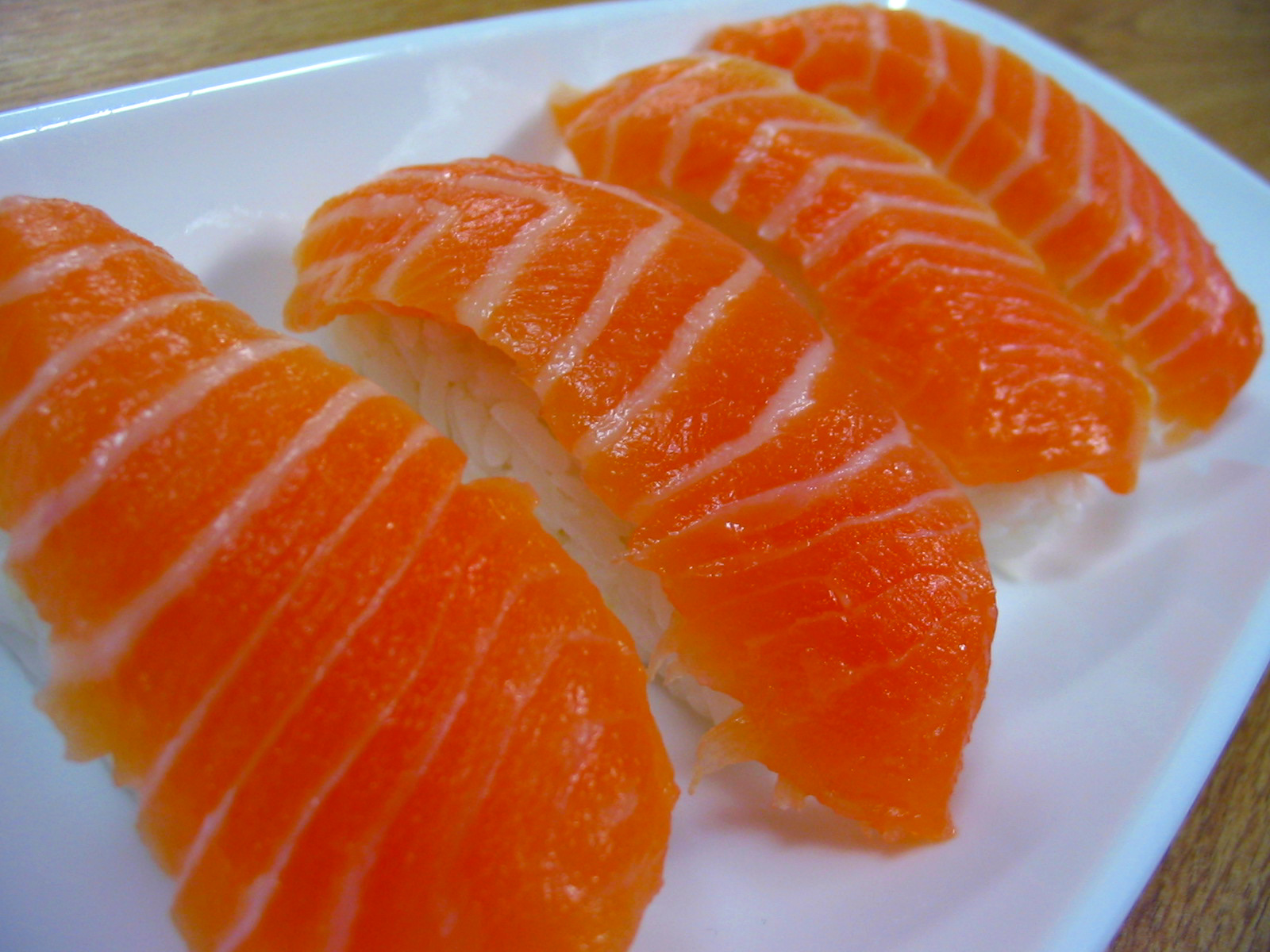 Salmon Nigiri [鮭握り]